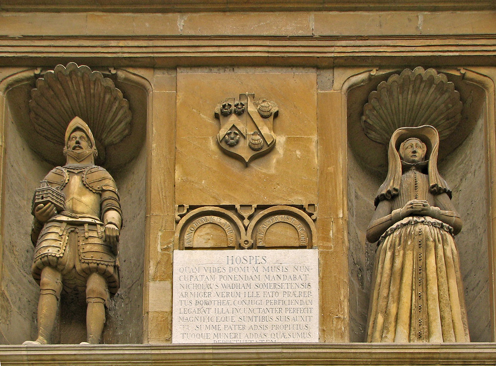 Statues of Nicholas Wadham and his wife Dorothy Petre at their foundation, Wadham College, Oxford, with the arms of Wadham impaling Petre between. Nicholas holds in his hand a building as an offering. On the stone tablet between the two figures is the following latin inscription: "Hospes quam vides domum musis nuncupatem ponendam mandabat Nicholaus Wadham Somersetensis armiger. Verum ille fato preareptus Dorotheae conjugi perficiendam legabat illa incunctanter perfecit magnificeque sumtibus suis auxit. Tu summe pater adsis propitius tuoque muneri addas quaesumus perpetuitatem" Above is inscribed within arches: "Anno Dom. 1613 Apr 20" and "Sub auspiciis IC Jacobi" Which may be translated as: "Stranger the Home of the Muse which you see, Nicholas Wadham of Somerset, Esquire, ordered the building of as an oral declaration (of his last will). Indeed he having been snatched away by fate he bequeathed to his wife Dorothy the completion, she without delay finished it and magnificently added her own expenditure. O You Highest Father be present favourably inclined and to you (to present and to you give) we seek perpetuity")